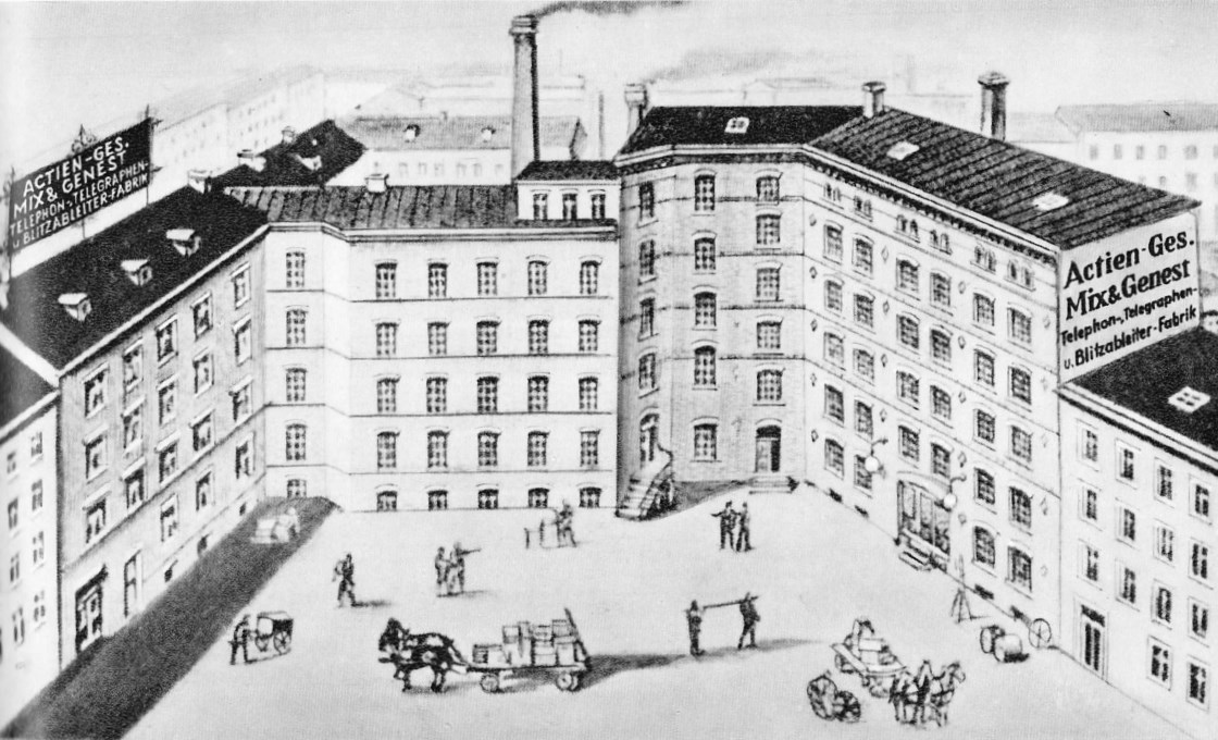 One of the first factories of Mix & Genest, Berlin (Neuenburgerstr.)